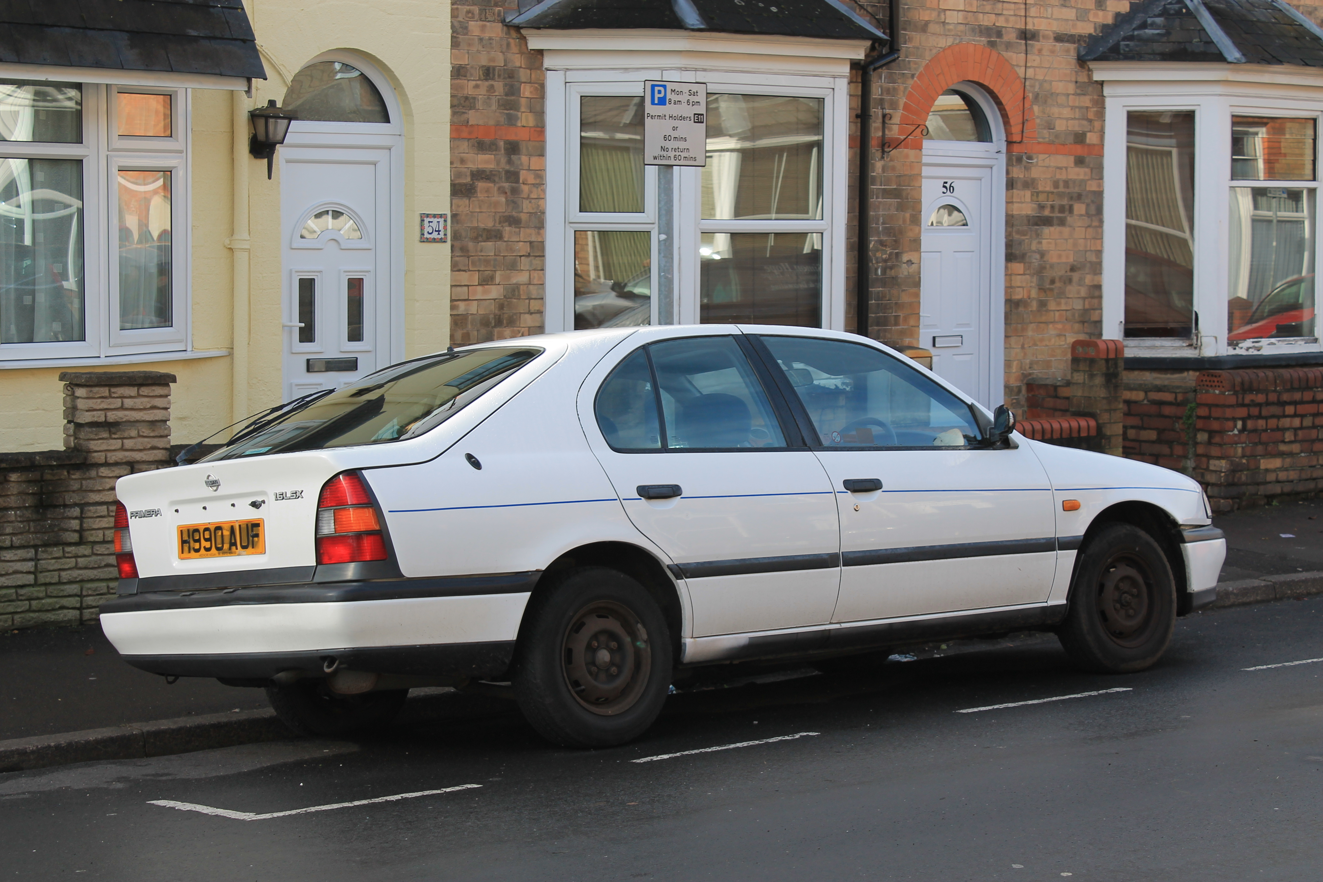 Always on the lookout for H reg Primeras, although most of the first generation are worthy of a photo now in my opinion. Other than the missing wheel trims, it didn't look in bad shape for 24 years of age, although I think that may be a tidemark creeping up the sides there... Sadly not a 1990 car like my last H reg Primera, but still far earlier than most. Registration number: H990 AUF ✔ Taxed Tax due: 01 February 2016 ✔ MOT Expires: 25 February 2015 Vehicle make NISSAN Date of first registration 18 February 1991 Year of manufacture 1991